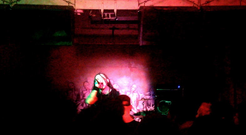 Doom performing in 2018.